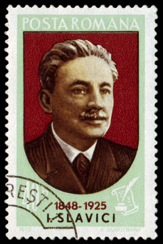 Ioan Slavici (1848–1925), writer and journalist from Rumania. Michel stamp catalogue (East-Europe part 4) number:3117 (8,000,000 stamps printed)